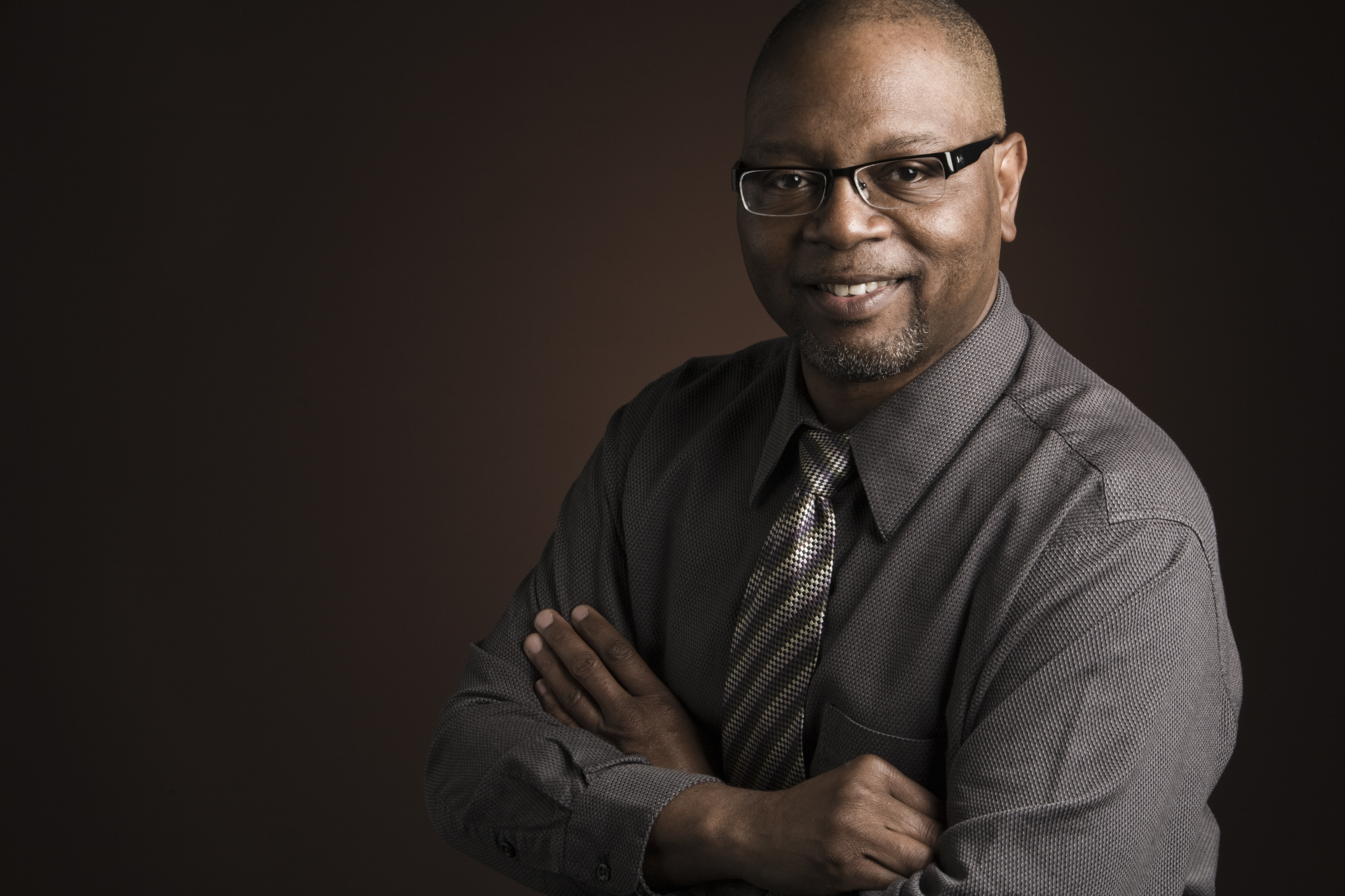 Lewis Nash promotional photo